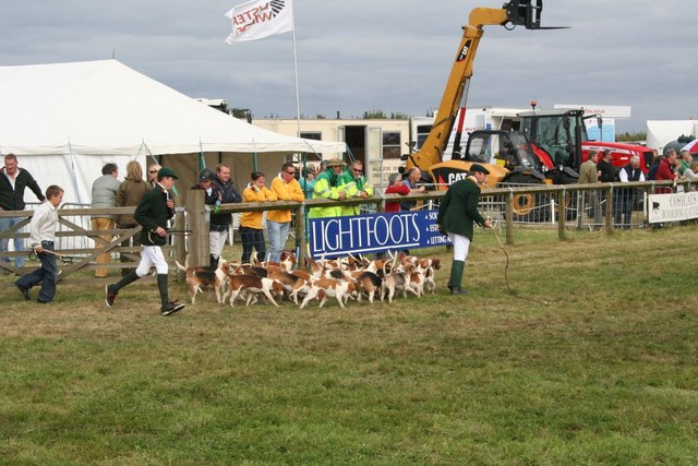 Bring on the hounds Every year they have the hounds here to show solidarity with the hunt. This is the beagle pack where the huntsmen follow on foot.